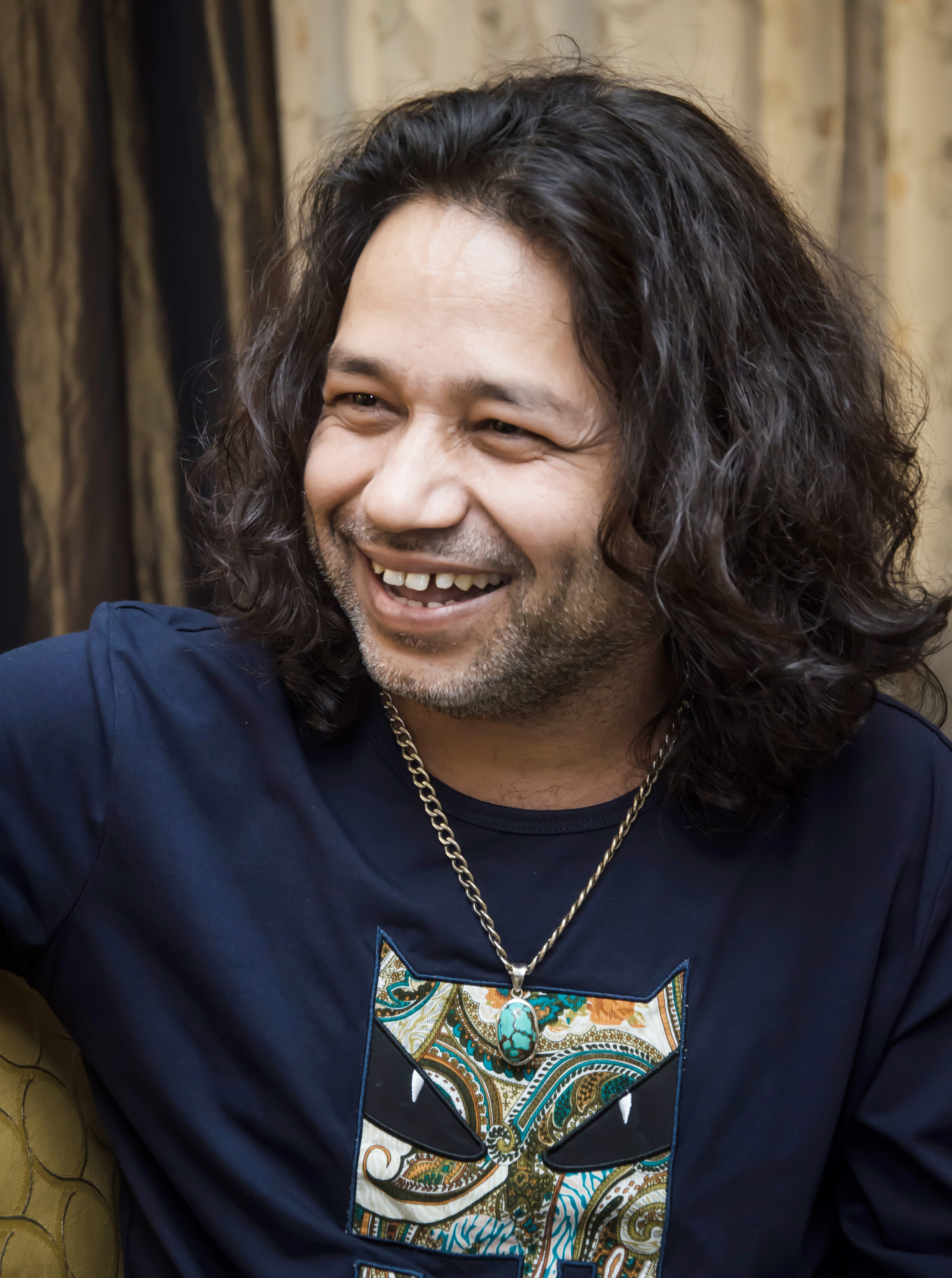 Kailash Kher